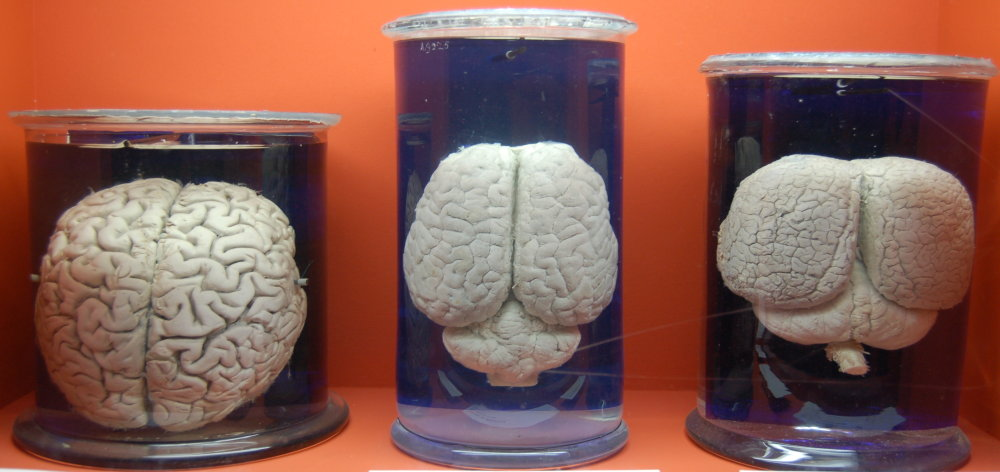 Comparison between (from left to right) human (Homo sapiens), rhinoceros (Diceros bicornis) and common dolphin (Delphinus delphis) brains showed at the "Amazing Cetaceans" exhibition of the Muséum National d’Histoire Naturelle in Paris (France) from the 11th june 2008 to the 25th may 2009.